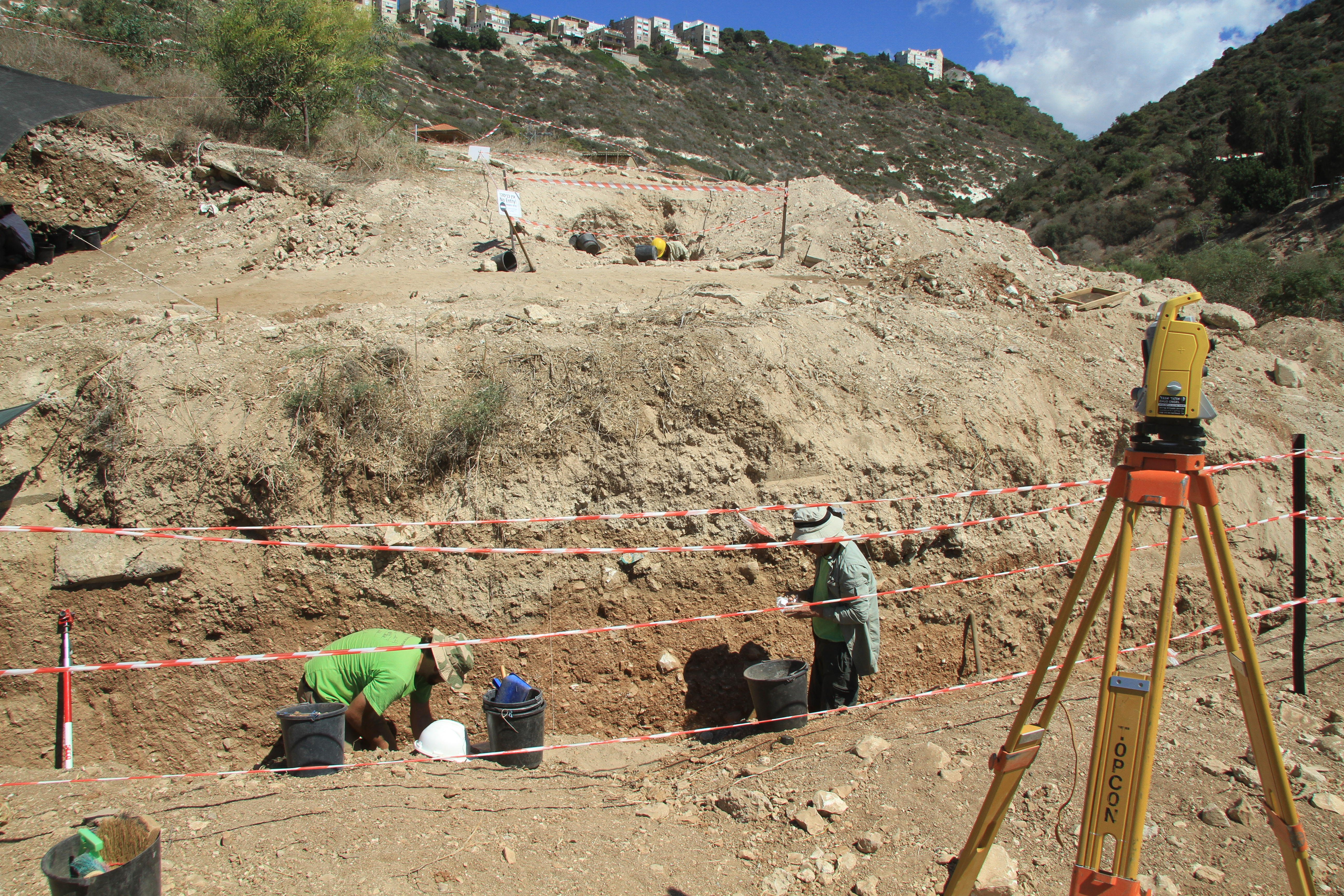 Neve David prehistoric excavation: studying the section of sediments adjacent to the modern road.